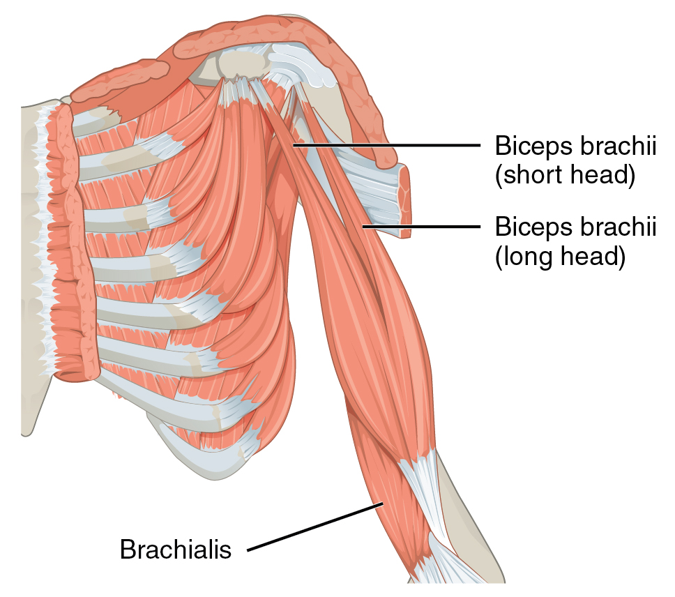 Other versions: Based off